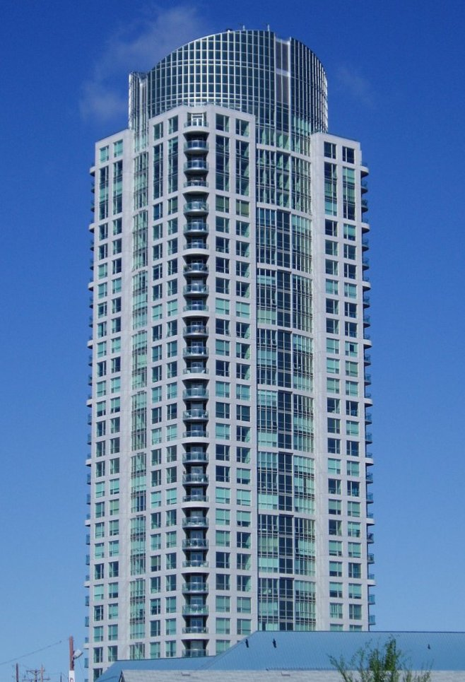 The Minto Metropole is the second tallest building in Ottawa, Ontario. It is filled with condominiums.